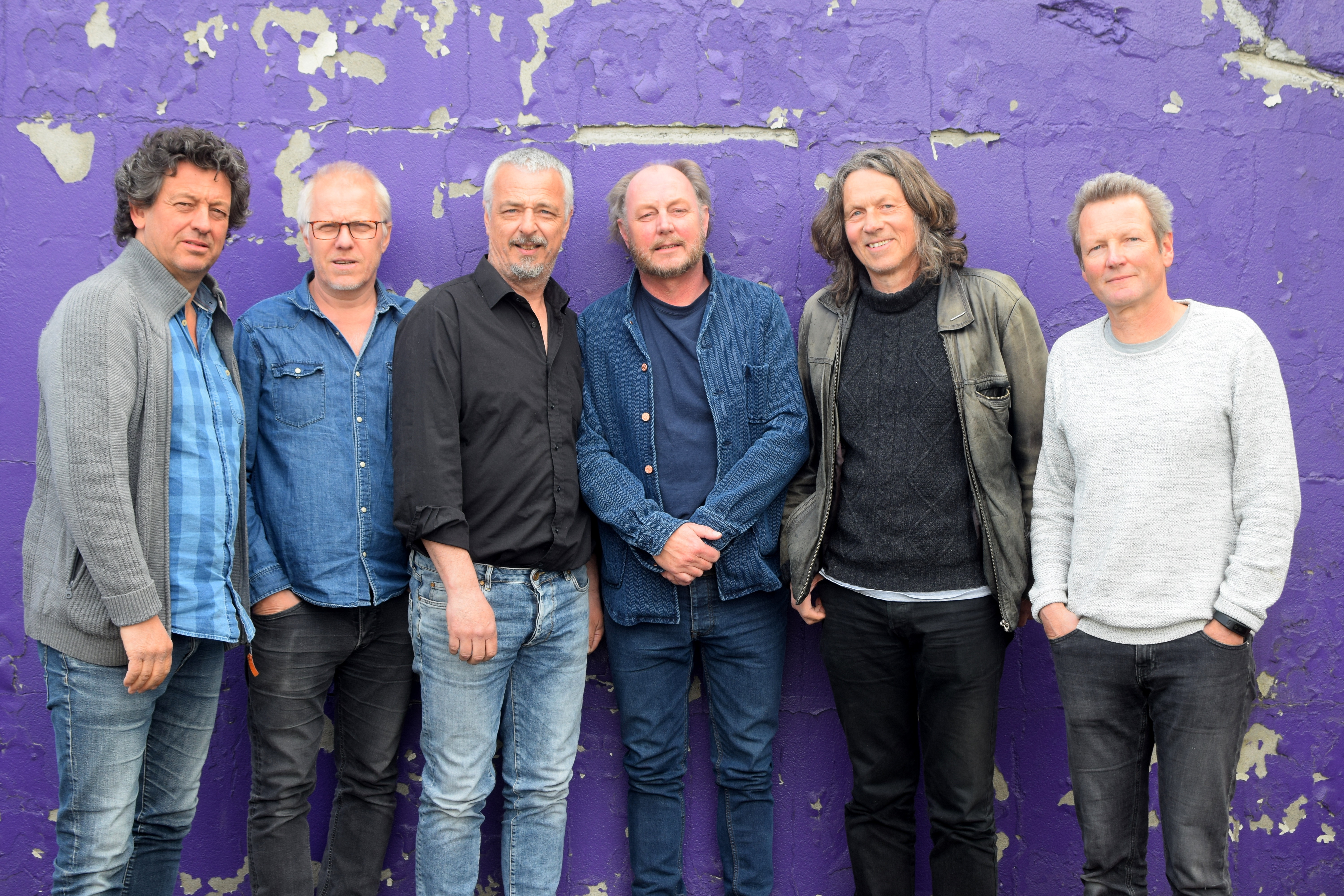 Norwegian band "Herrene i Haven" with members from Tønsberg and Vestfold photographed in May 2017